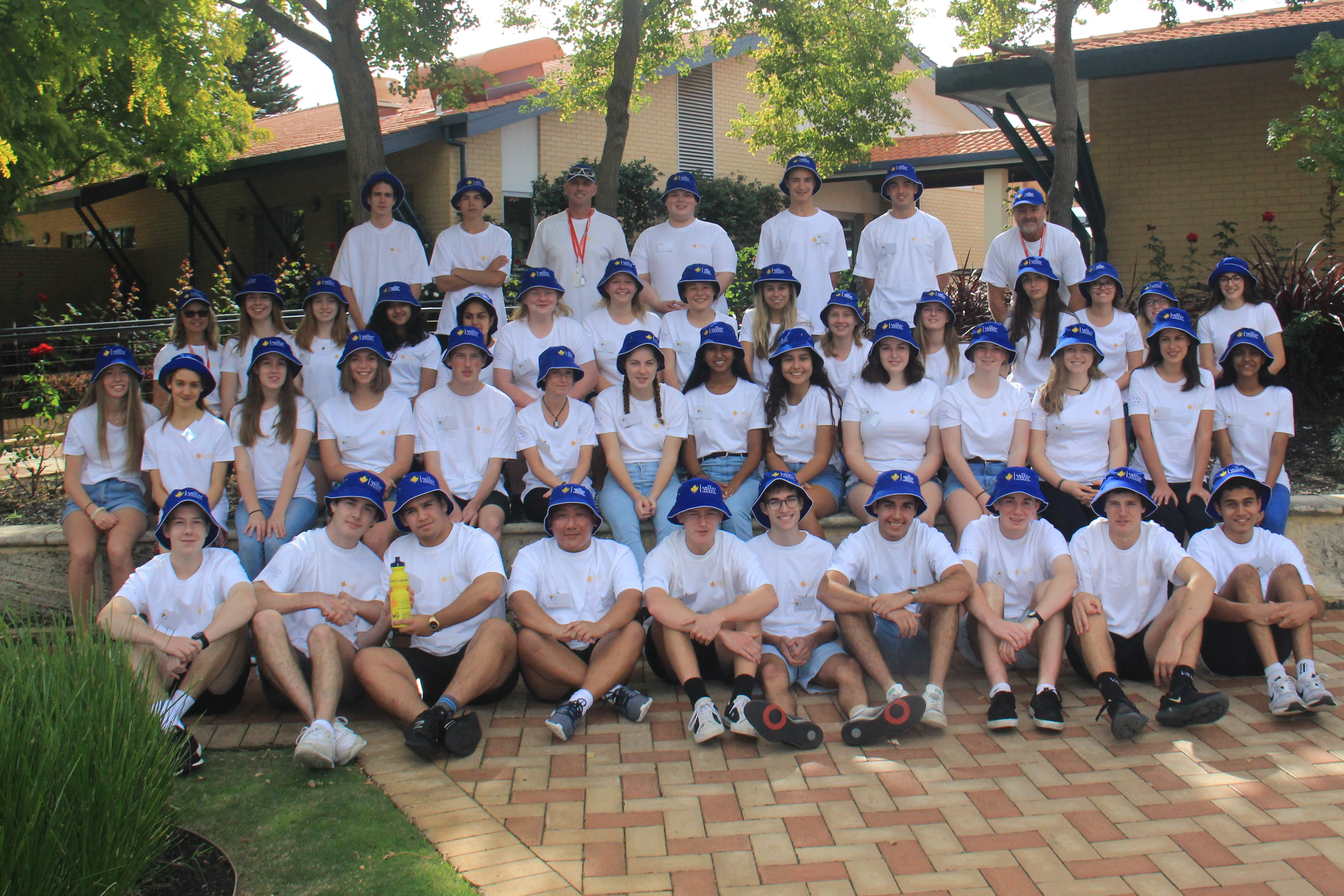 Young Leaders who attend the annual residential camp at Penrhos College conducted by JoJara Associates on behalf of the Amanda Young Foundation